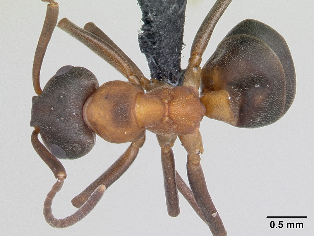 Dorsal view of ant Formica foreli specimen casent0173871.